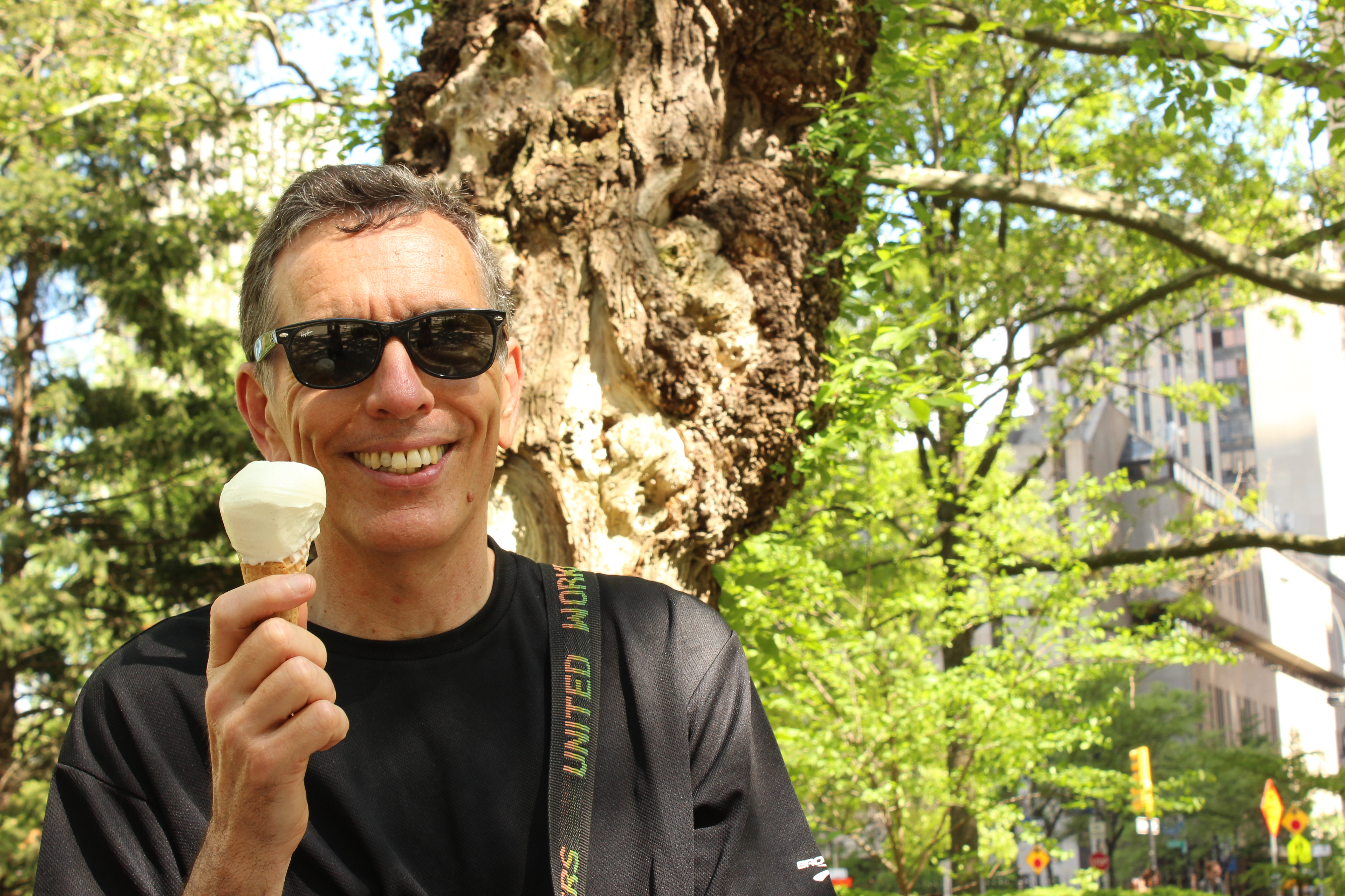 New York May 2014